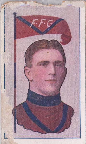 Cigarette card of Bert Lenne from the 1912 Sniders & Abrahams series.